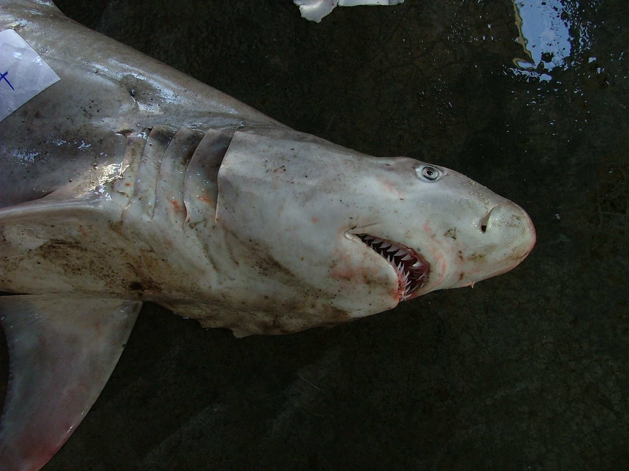 Snaggletooth shark (Hemipristis elongata) at Phuket Fishing Port, Thailand